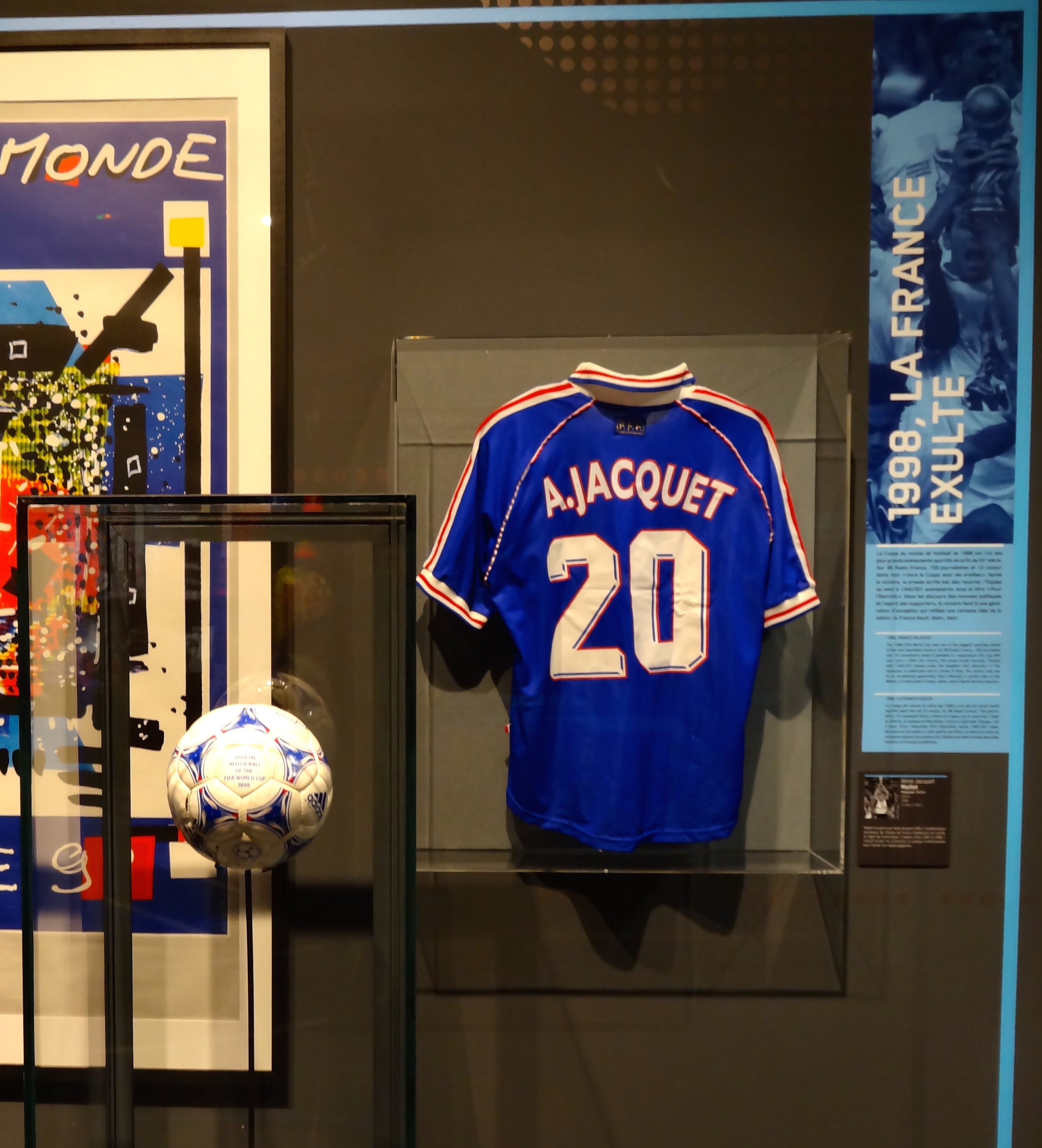 France 1998 World Cup, official used final ball